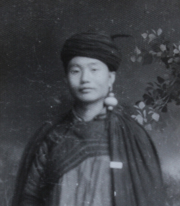 Picture of Prof. Shi Jinbo dressed in traditional Yi dress when he was studying the Nuosu (Yi) language in the Liangshan Yi Autonomous Prefecture of Sichuan as an undergraduate in 1961.中文（中国大陆）: 史金波教授1961年在凉山彝族地区实习调查。